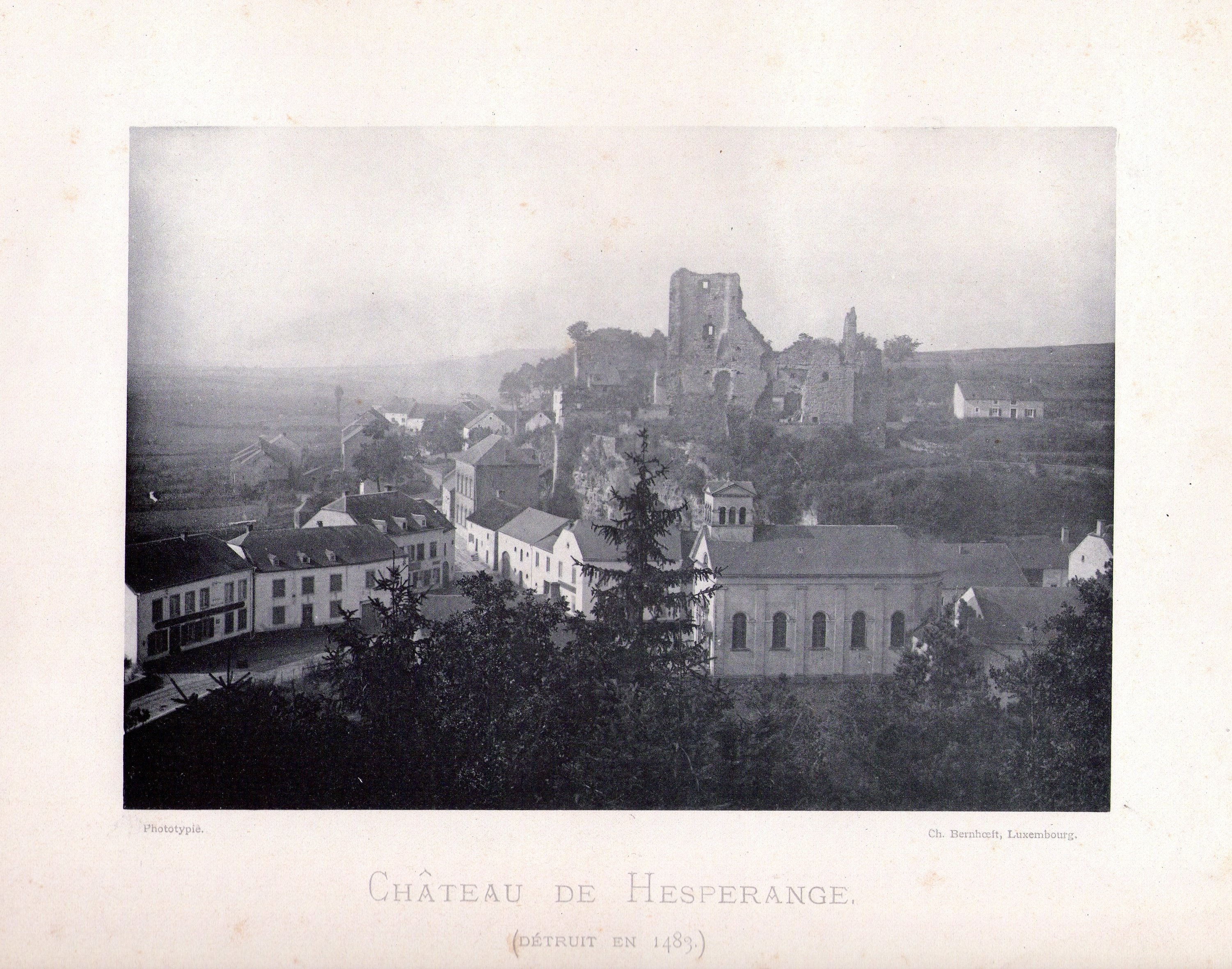 Luxembourg: Hesperange Fortress